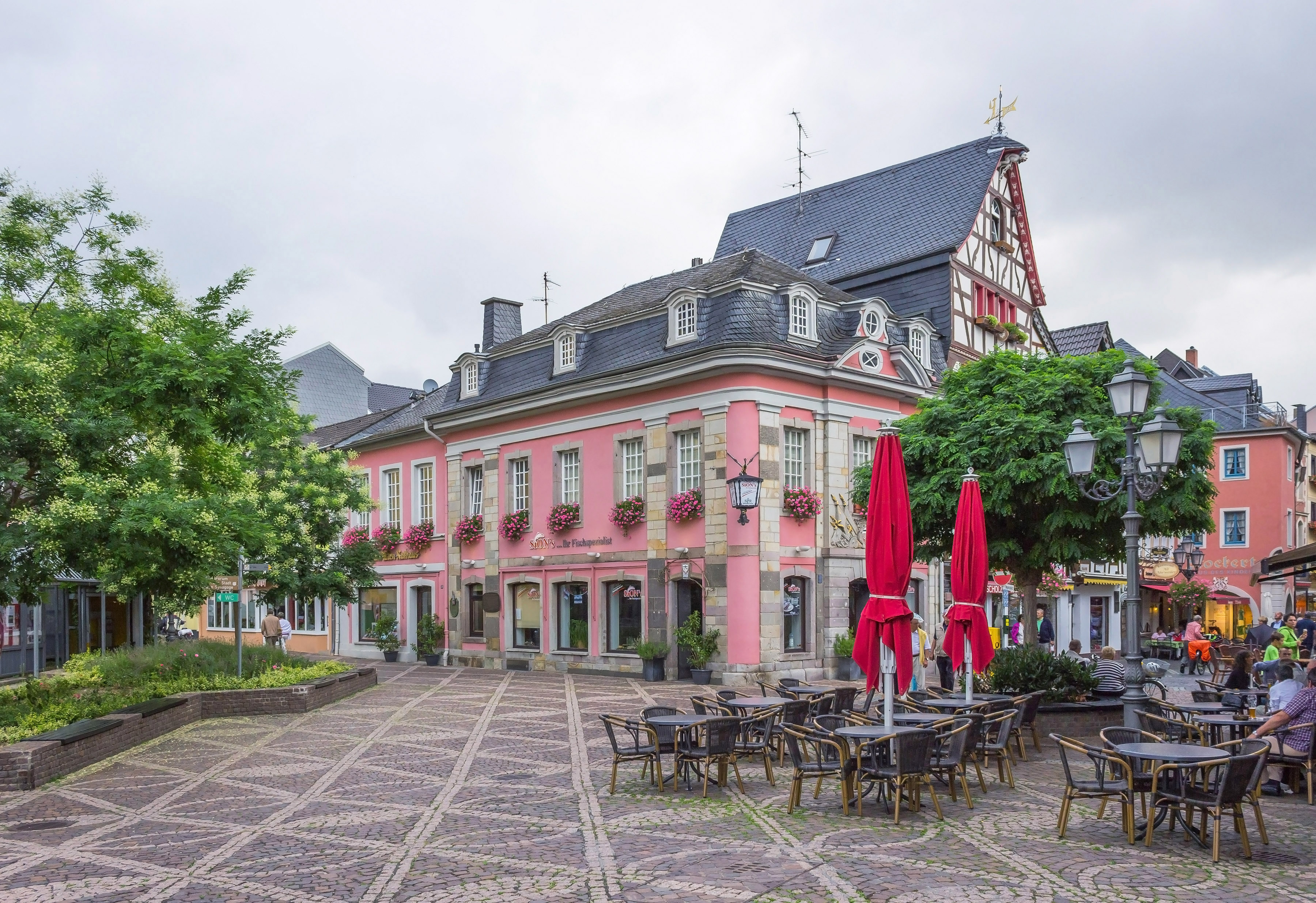 View on Stadtwache from Marktplatz, Ahrweiler